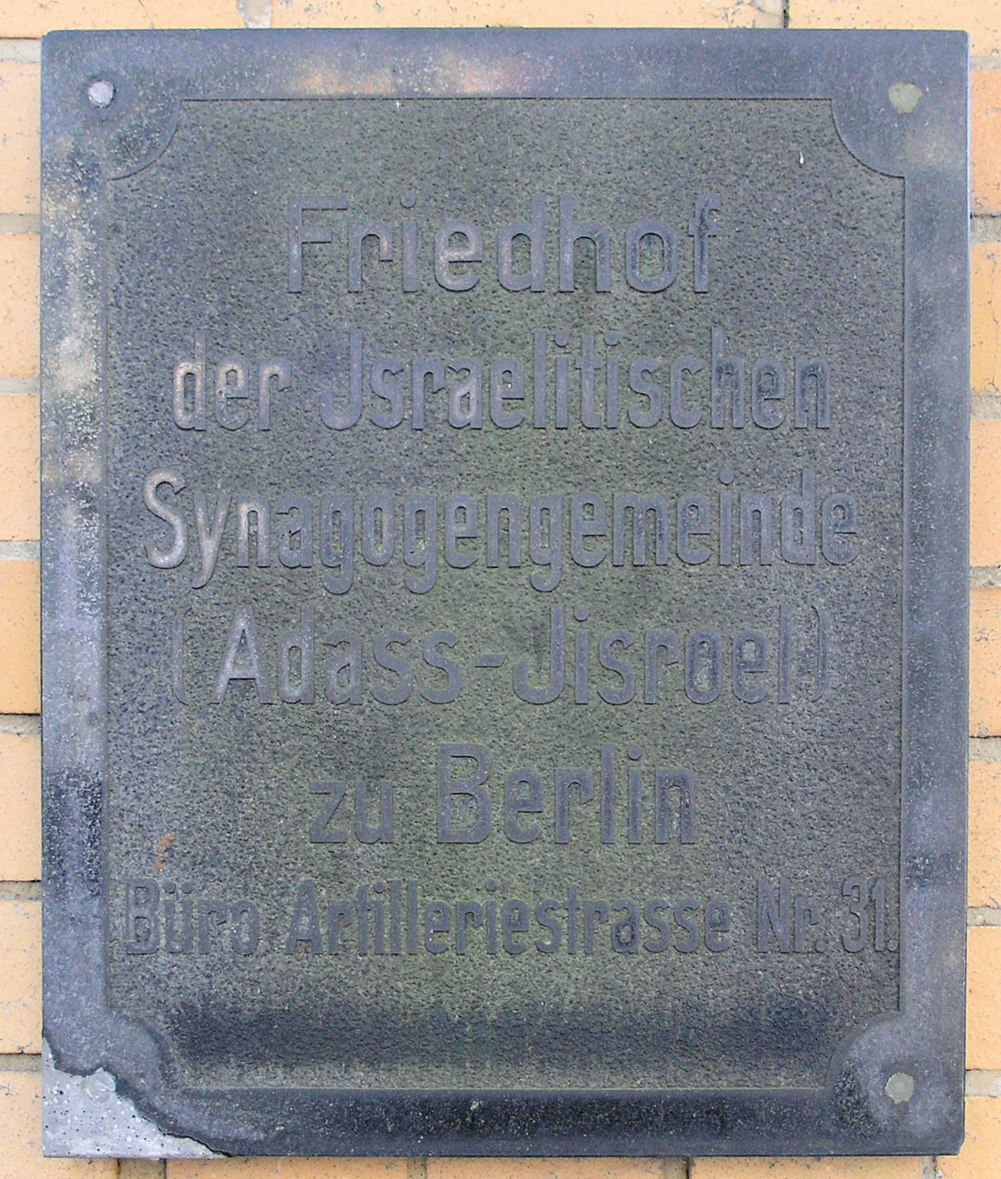 Memorial plaque, Israelitische Synagogen-Gemeinde Adass Jisroel zu Berlin, Wittlicher Straße 2, Berlin-Weißensee, Germany Koordinate:52°33′28″N 13°28′35″E / 52.55778°N 13.47639°E